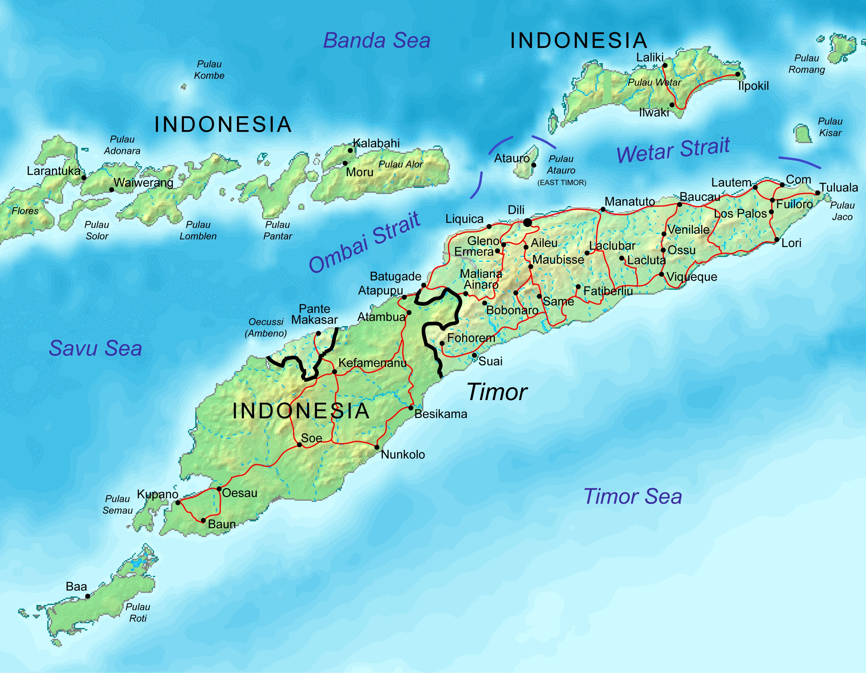 Adopted from Image:Timor.png. Names, roads, etc from Image:CIA-TimorLeste.jpg.